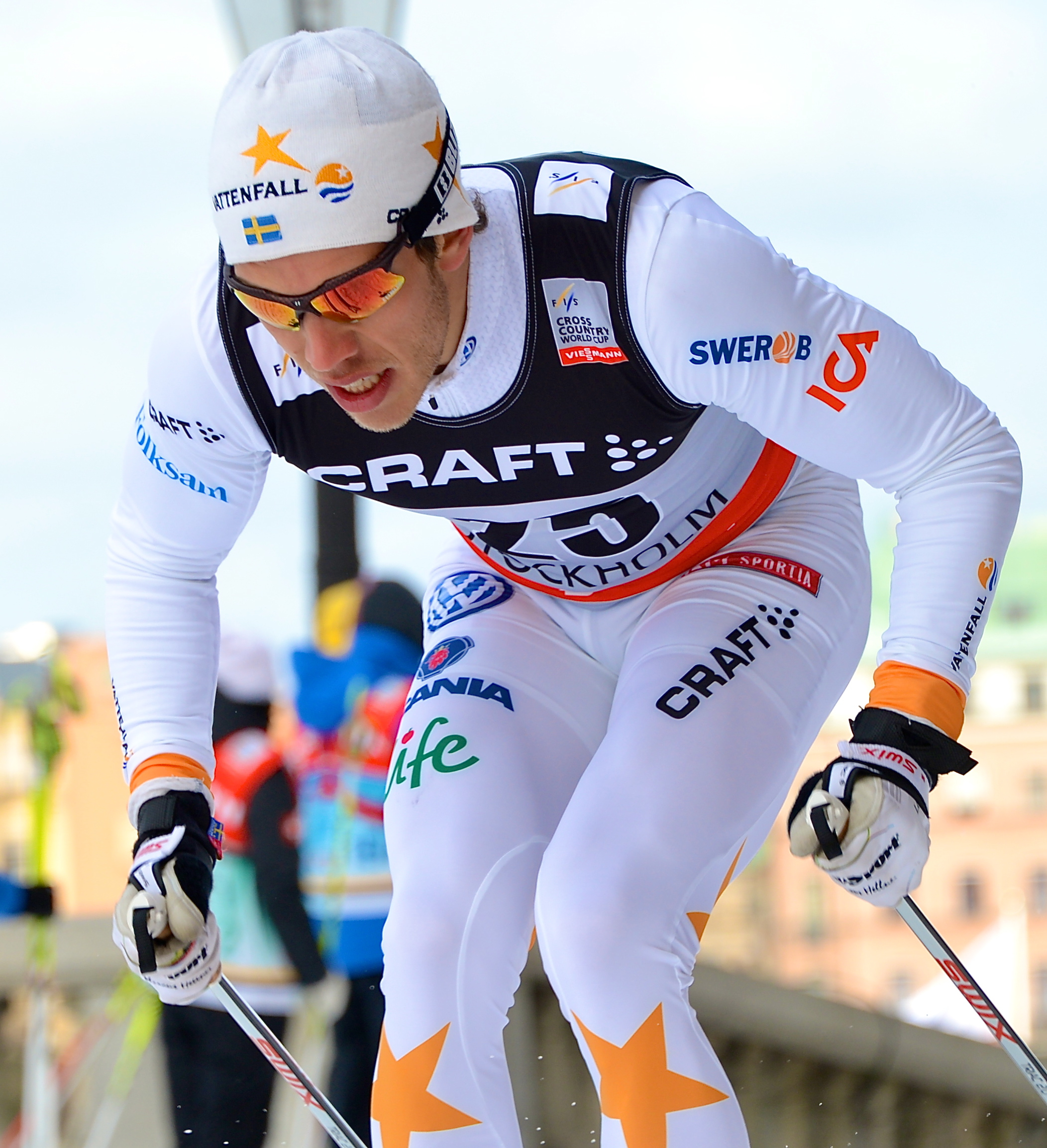 Marcus Hellner at the Royal Palace Sprint, part of the FIS World Cup 2012/2013, in Stockholm on March 20, 2013.